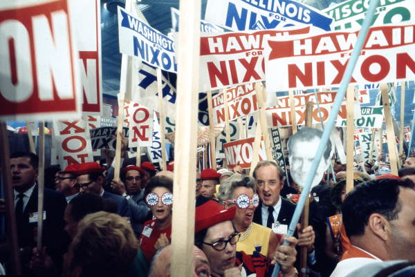 Local call number: GOV0119 Title: Supporters of Richard Nixon at the 1968 Republican National Convention: Miami Beach, Florida Date: August 1968 Physical descrip: 1 slide - col. Series Title: "Governors%20collection."%20OR%20tt:"Governors%20collection."^10)%20AND%20collection:"Florida%20Photographic%20Collection"&searchbox=1&query="Governors%20collection."&year=&gallery=0&search-type= Governors Collection Repository: State Library and Archives of Florida, 500 S. Bronough St., Tallahassee, FL 32399-0250 USA. Contact: 850.245.6700. Persistent URL